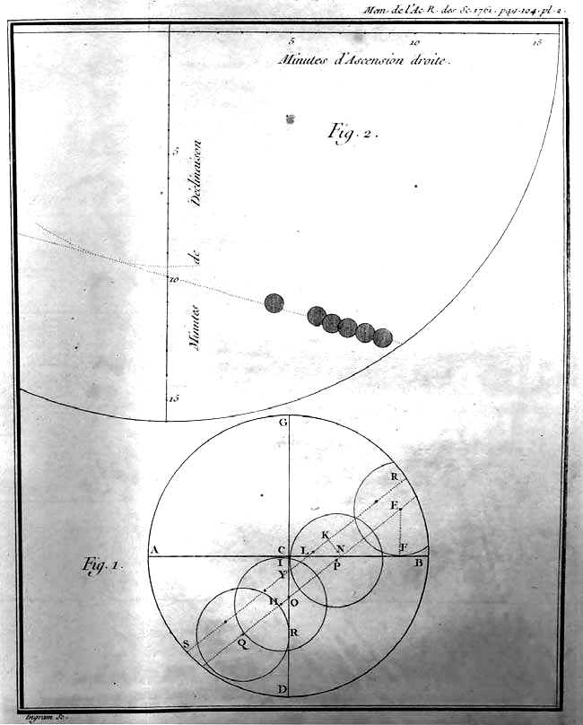 Illustration of the Venus transit of 1761. Fig. 1 is the Sun’s passage over the telescope’s field of sight, Fig. 2 is the positions of Venus at six different occasions